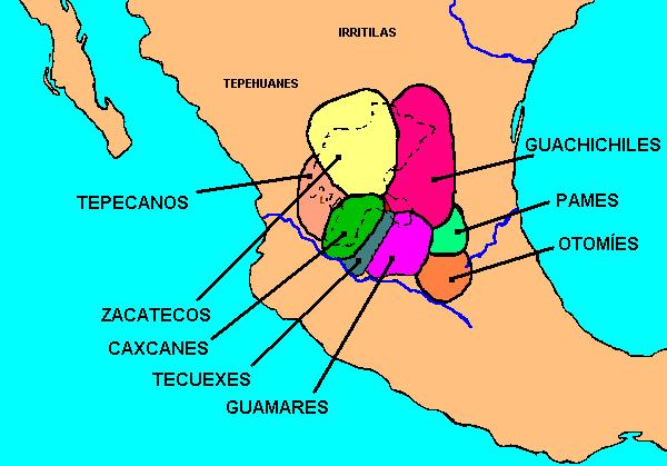 Zacatecas before spaniards; Flores Olague, Jesús (1996) Breve Historia de Zacatecas ISBN 96-16-4670-3 Book on the web